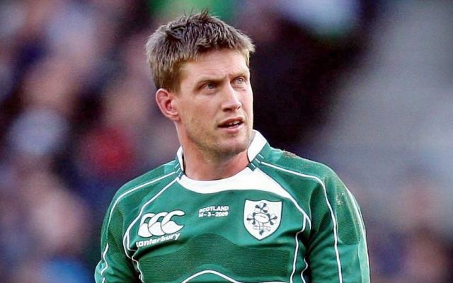 Irish rugby player Ronan O'Gara playing against Scotland during the 2009 Six Nations Championship.